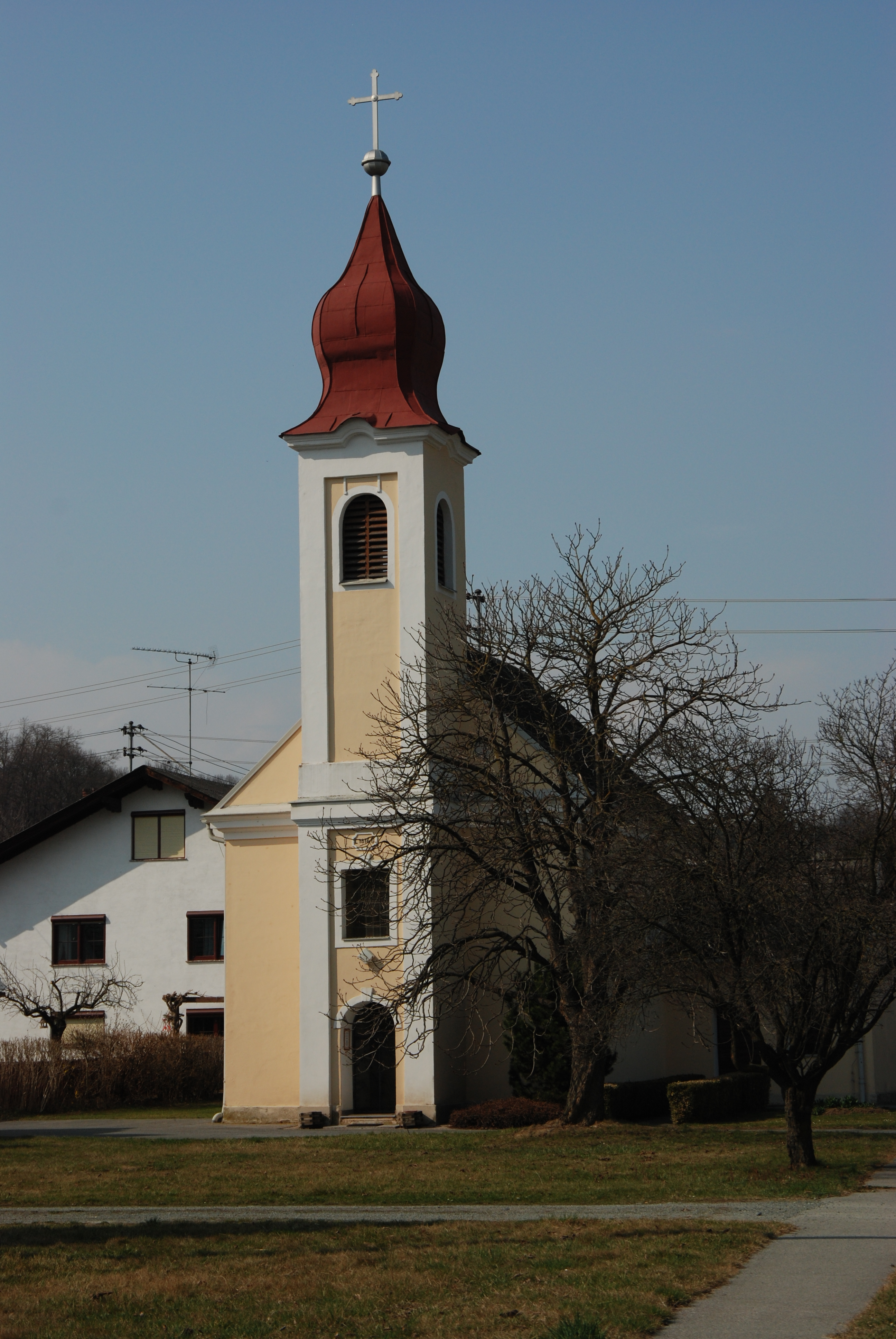 Kirche Deutsch Ehrensdorf